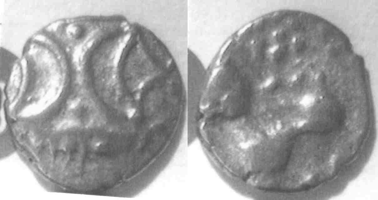 An Iron Age Unit from NORFOLK Iceni Celtic Coin Index reference: 95.2513